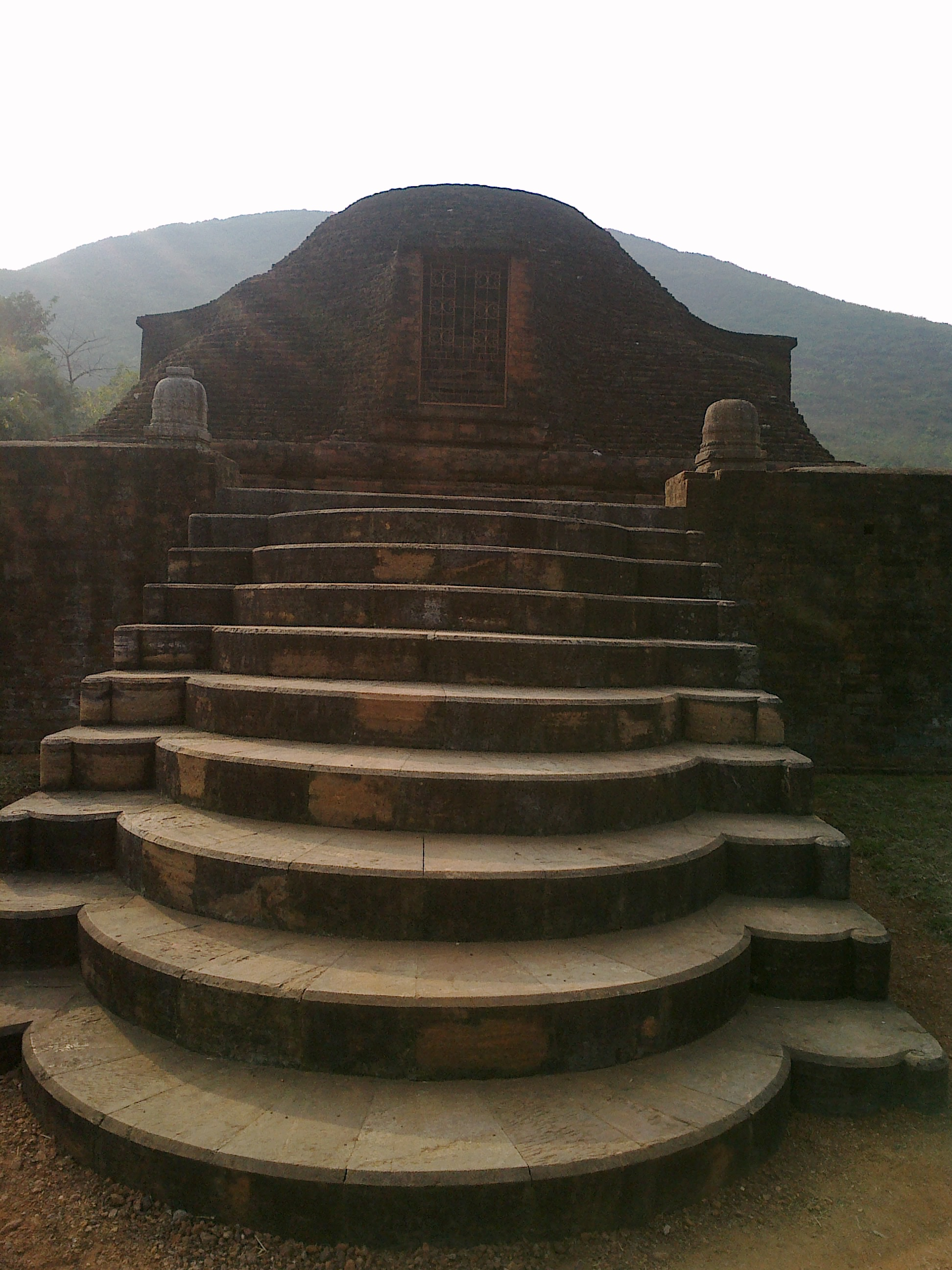 Udayagiri Buddhist Complex, Jajpur, Odisha